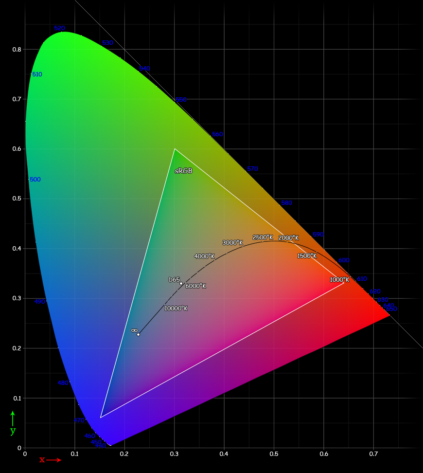 CIE 1931 xy chromaticity diagram showing the gamut of the sRGB color space and location of the primaries. The D65 white point is shown in the center. The Planckian locus is shown with color temperatures labeled in Kelvin. The outer curved boundary is the spectral (or monochromatic) locus, with wavelengths shown in nanometers (blue). Note that the colors in this displayed file are being specified using sRGB. Areas outside the triangle cannot be accurately colored because they are out of the gamut of sRGB, therefore they have been interpolated.